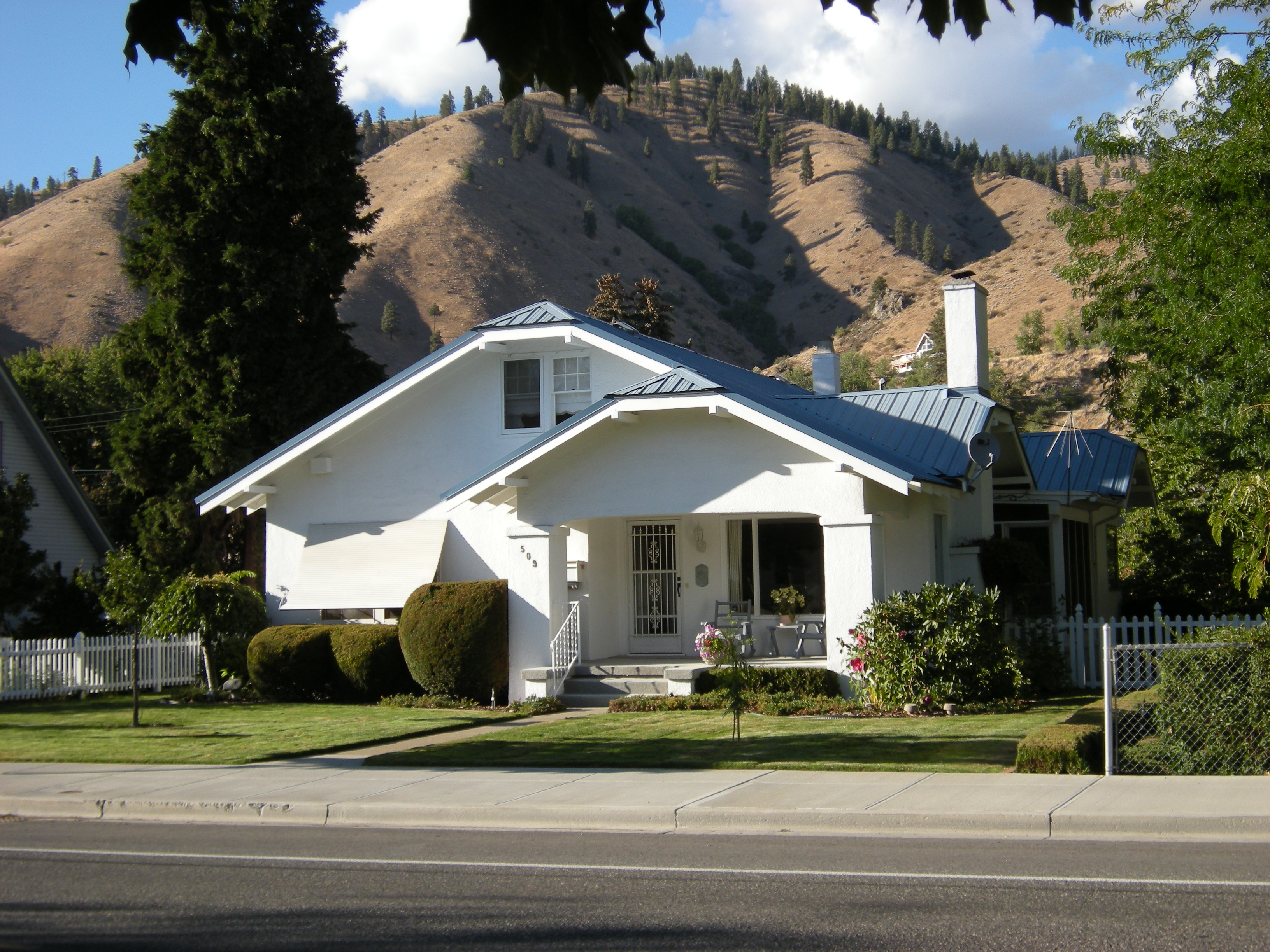 House in Cottage Avenue Historic District, Cashmere, Washington.